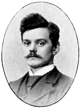 Image scanned from the book "Svenskt Porträttgalleri XX - Arkitekter, Bildhuggare, Målare m.fl. " ("Swedish Portrait Gallery XX - Architects, Sculptors, Painters, ") published 1901